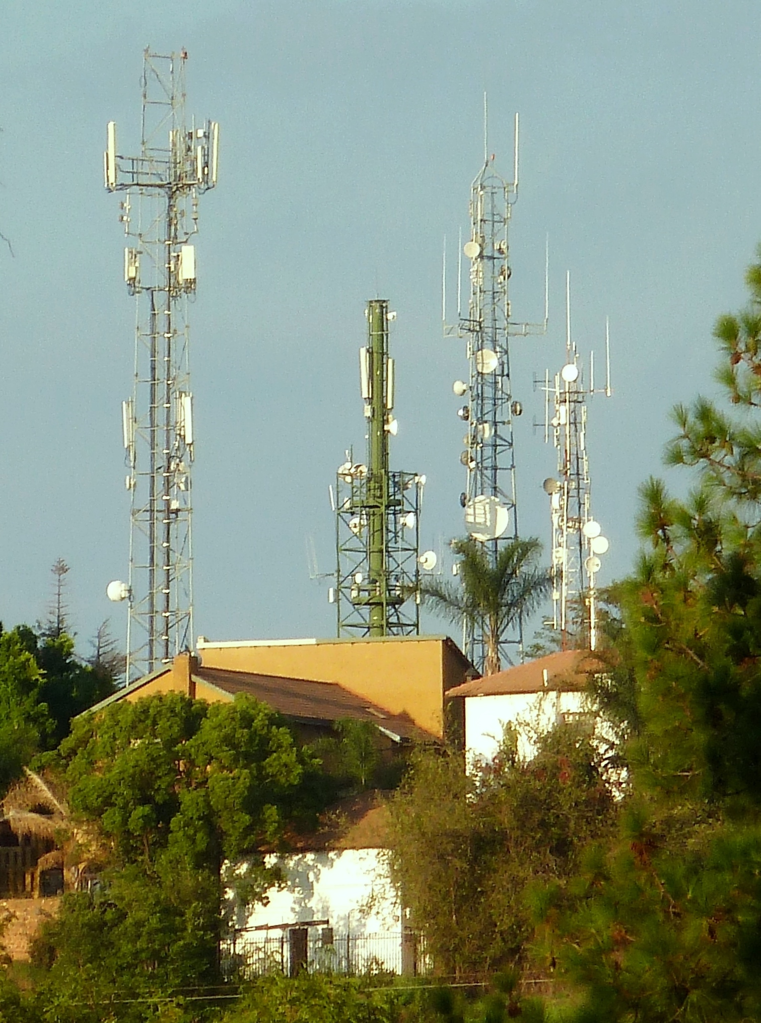 Suburban telecommunication towers in Moreleta Park, Pretoria